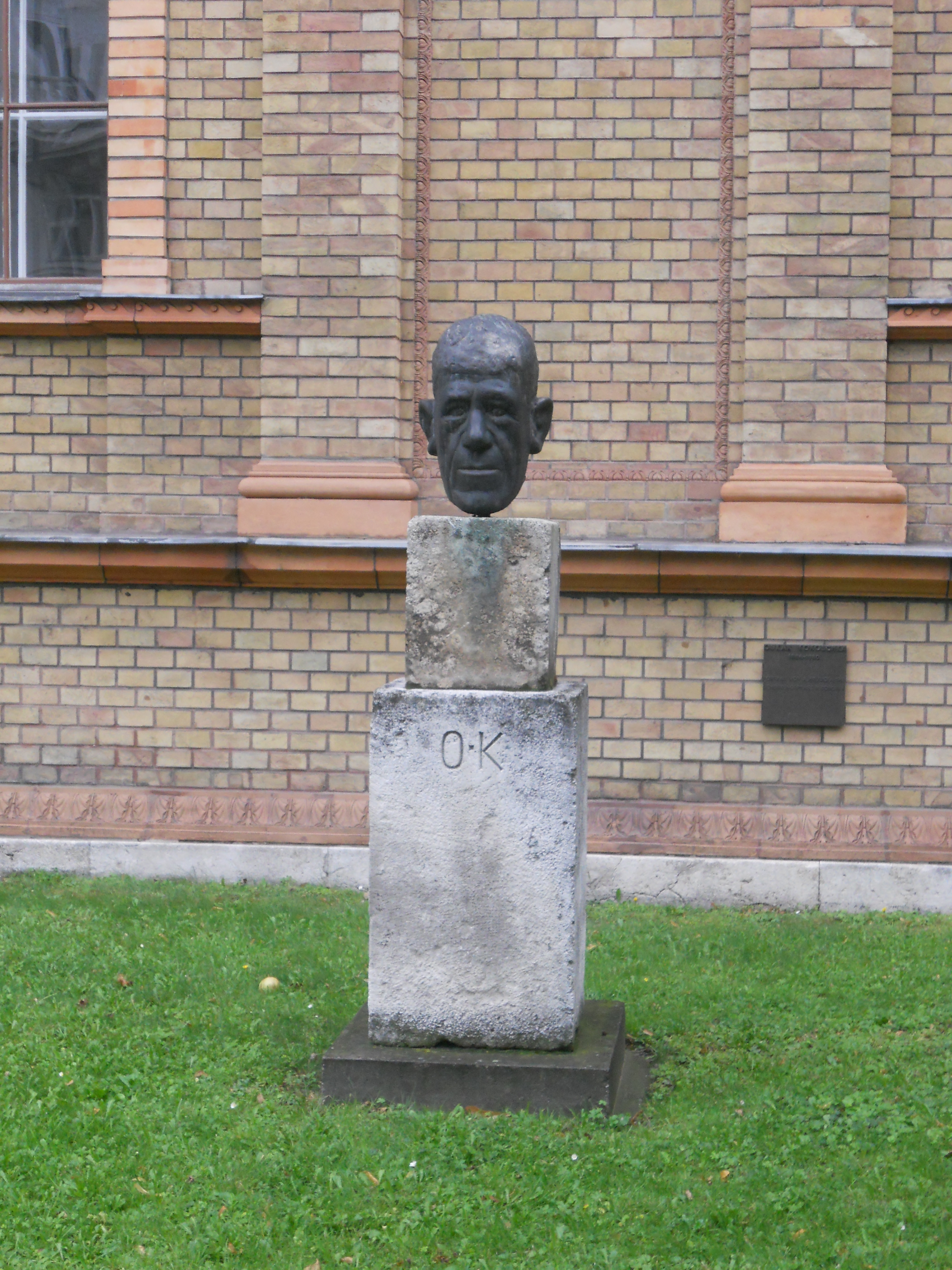 Bust of Oskar Kokoschka in front of the University of Applied Arts in Vienna